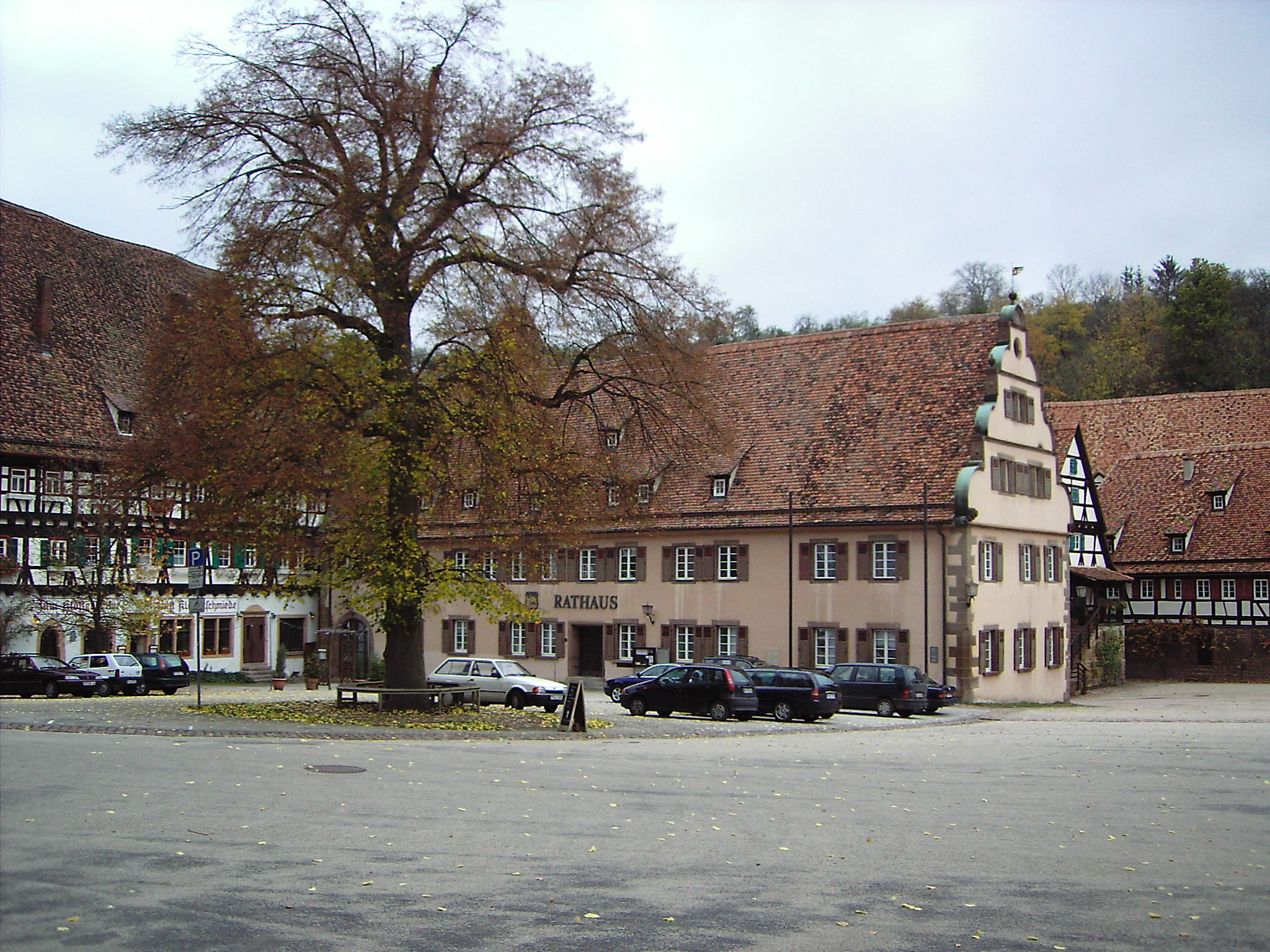 Maulbronn Monastery - Stables (now Town Hall), on the leftside Foundry